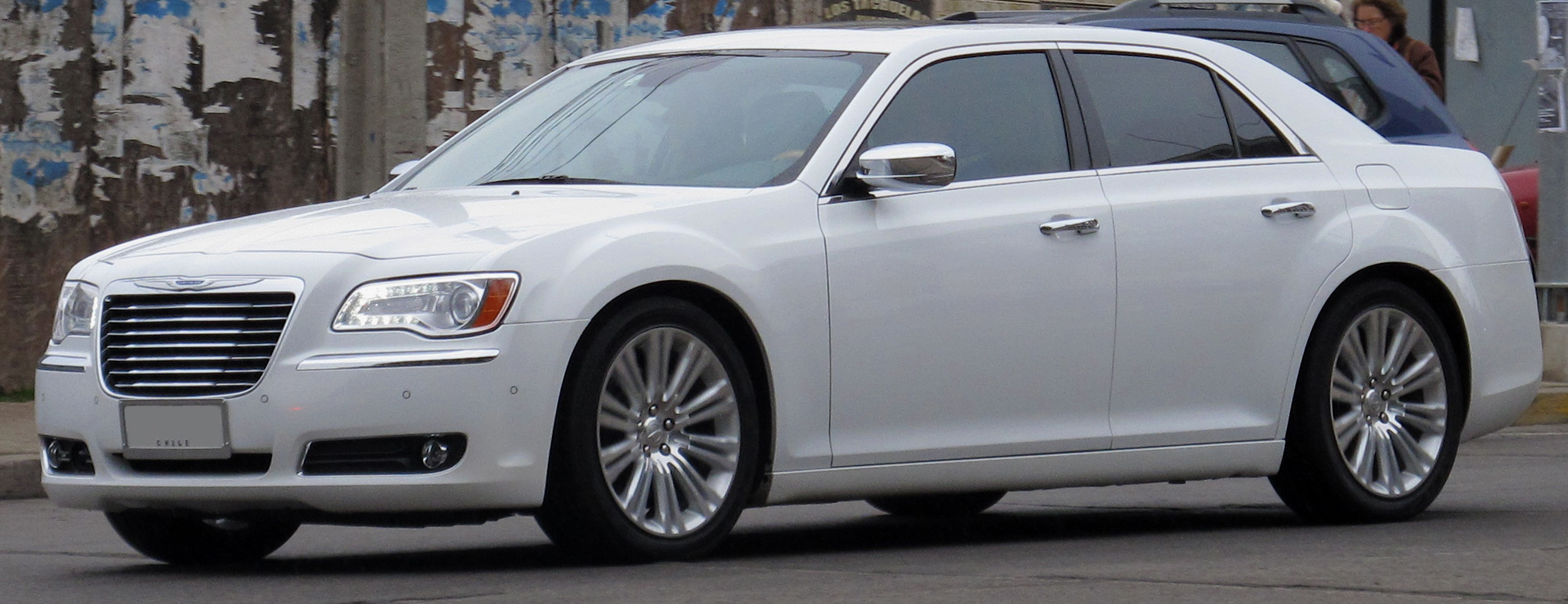 Chrysler 300C 3.6 Limited 2014